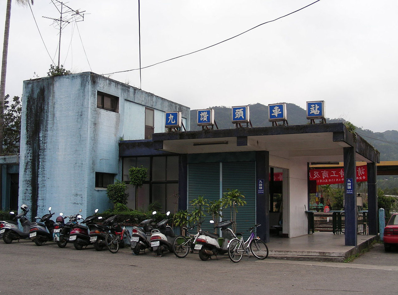 Taiwan "Jiou Zan Tou" Railway Station.